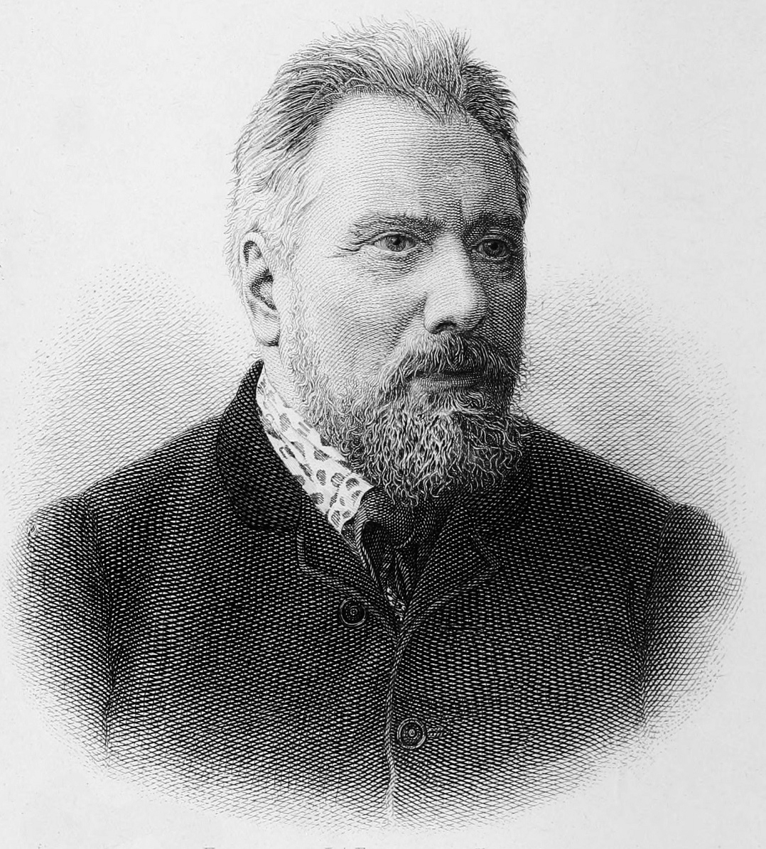 Russian writer Nikolay Leskov